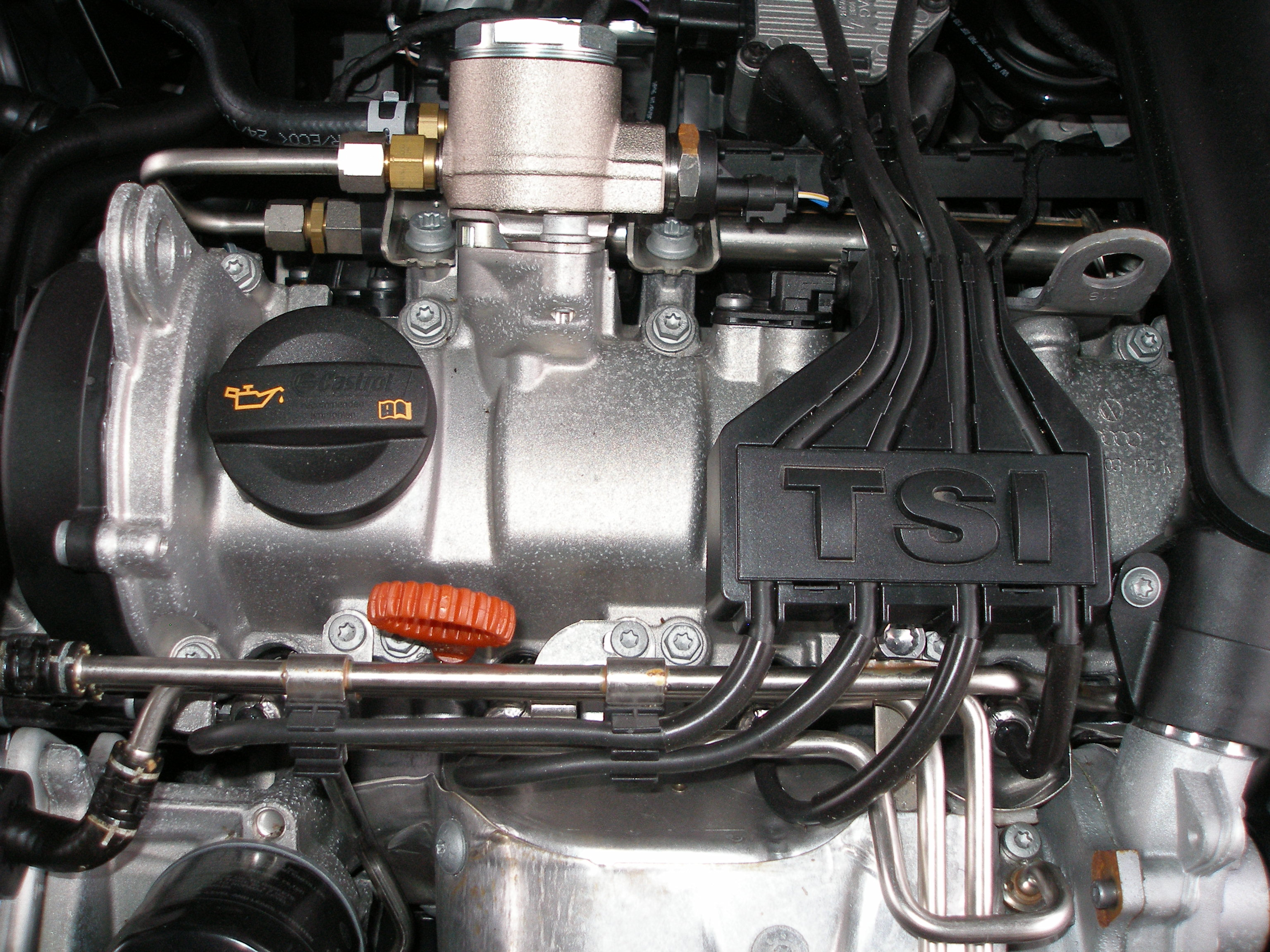 1.2 TSI 63kW engine in a Skoda Fabia (2011)